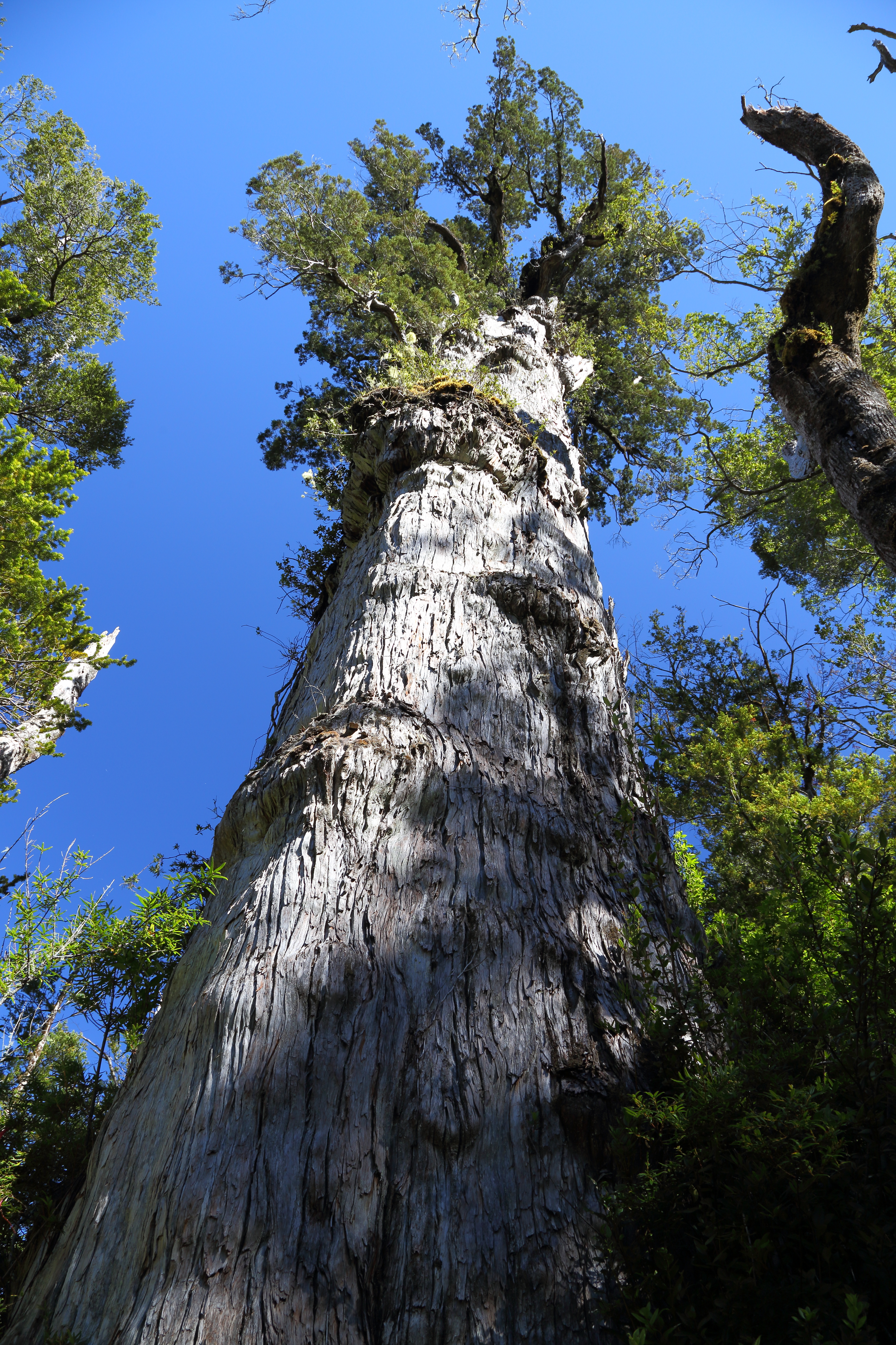 Fitzroya cupressoides: Alerce Andino National Park